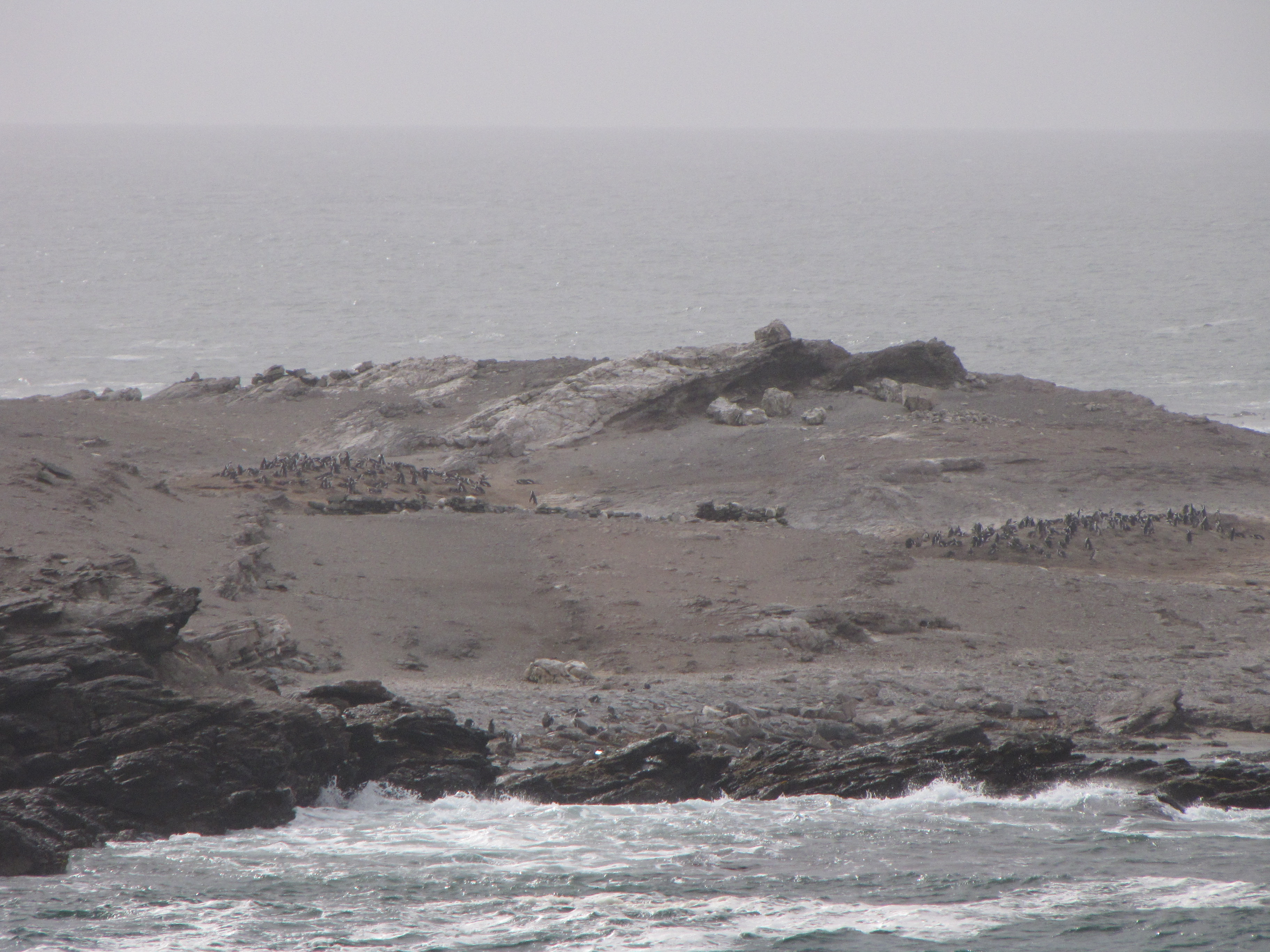 Penguins Halifax Island Namibia